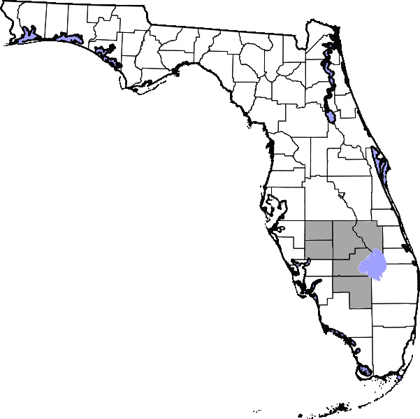 This is a map of Florida with the six-county Florida Heartland region highlighted.